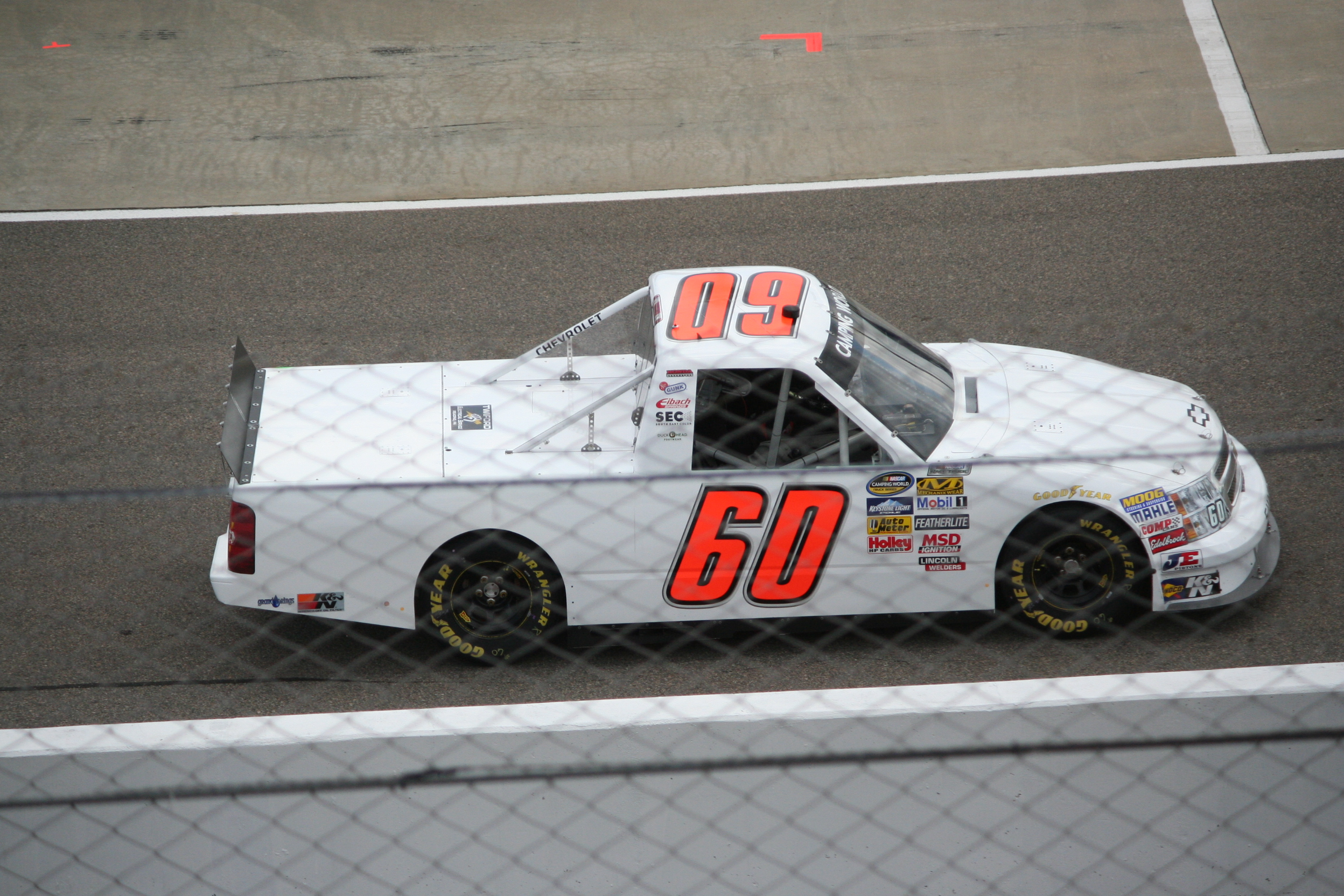 Grant Enfinger drove the No. 60 truck for Turn One Racing at Rockingham Speedway in the Good Sam Carolina 200.